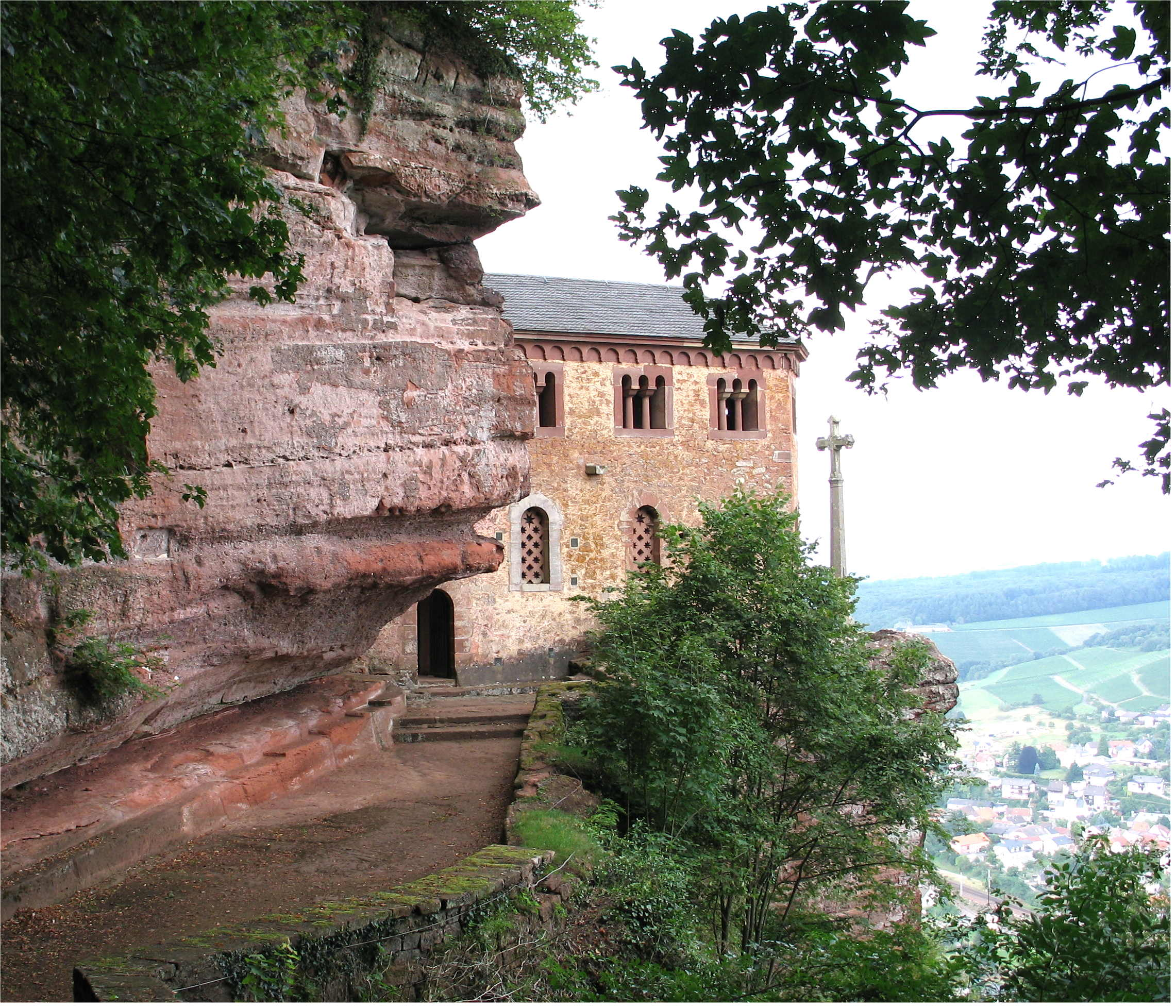 Chapel in Kastel-Staadt, Rhineland-Palatinate, Germany. Former mausoleum for John I of Luxembourg, King of Bohemia.